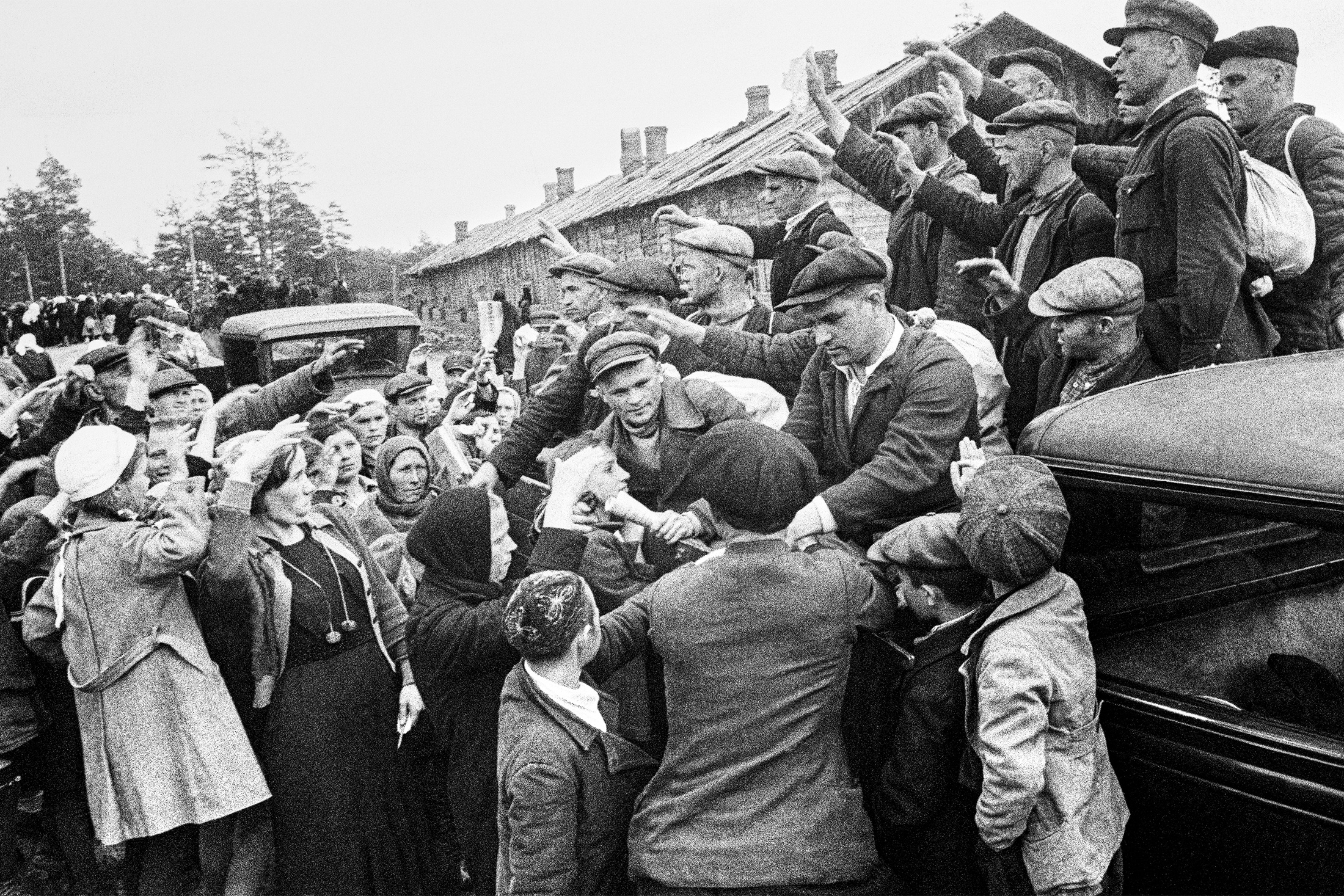 “Send-off to militia”. Volunteers being sent off to militia.